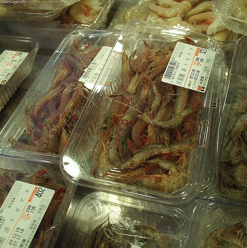 Southern rough shrimp Trachysalambria curvirostris (Stimpson, 1860)